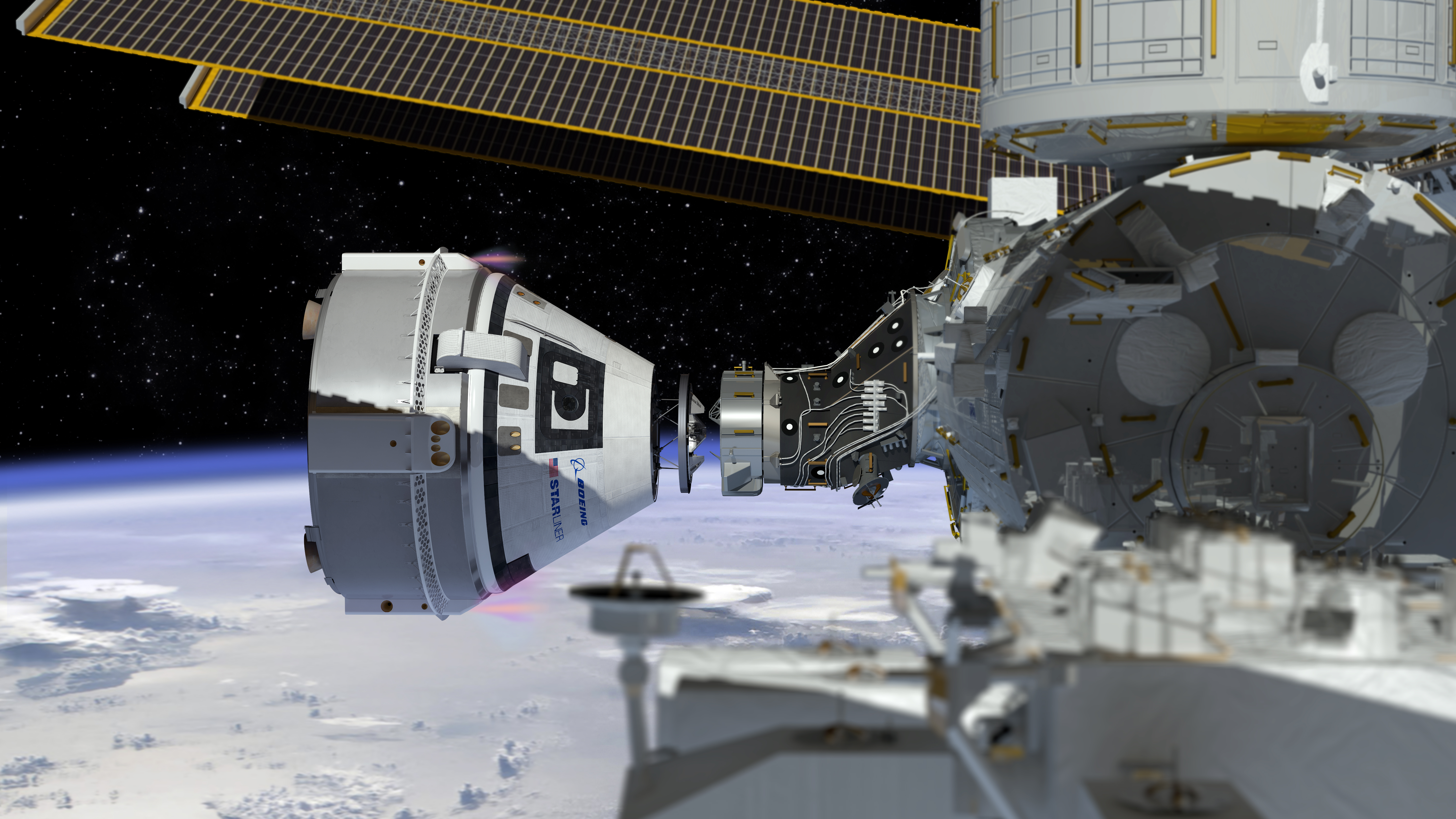 This artist's concept shows Boeing’s CST-100 Starliner spacecraft, currently under development for NASA’s Commercial Crew Program, docking to the International Space Station.